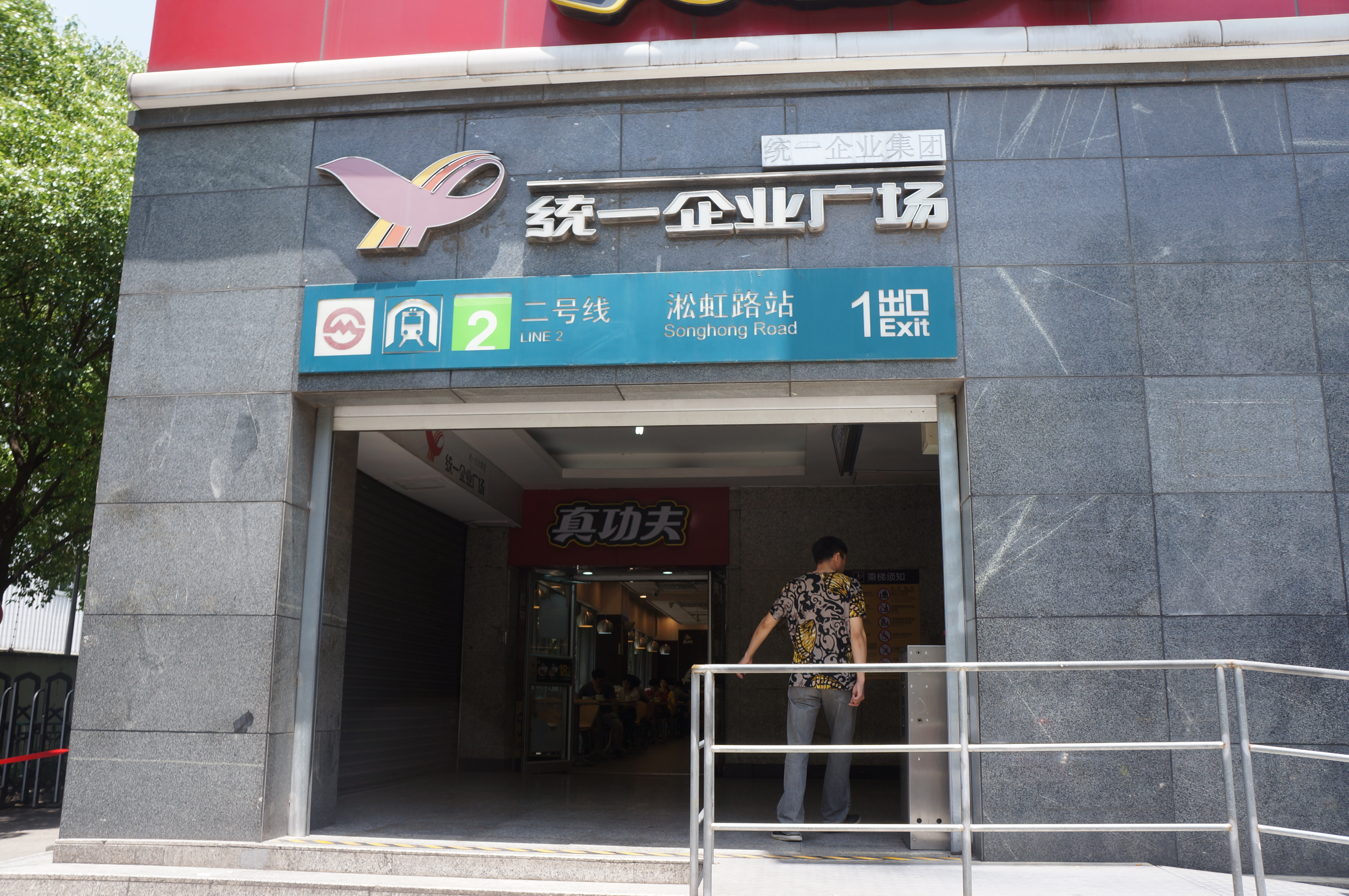 201805 Exit 1 of Songhong Road Station